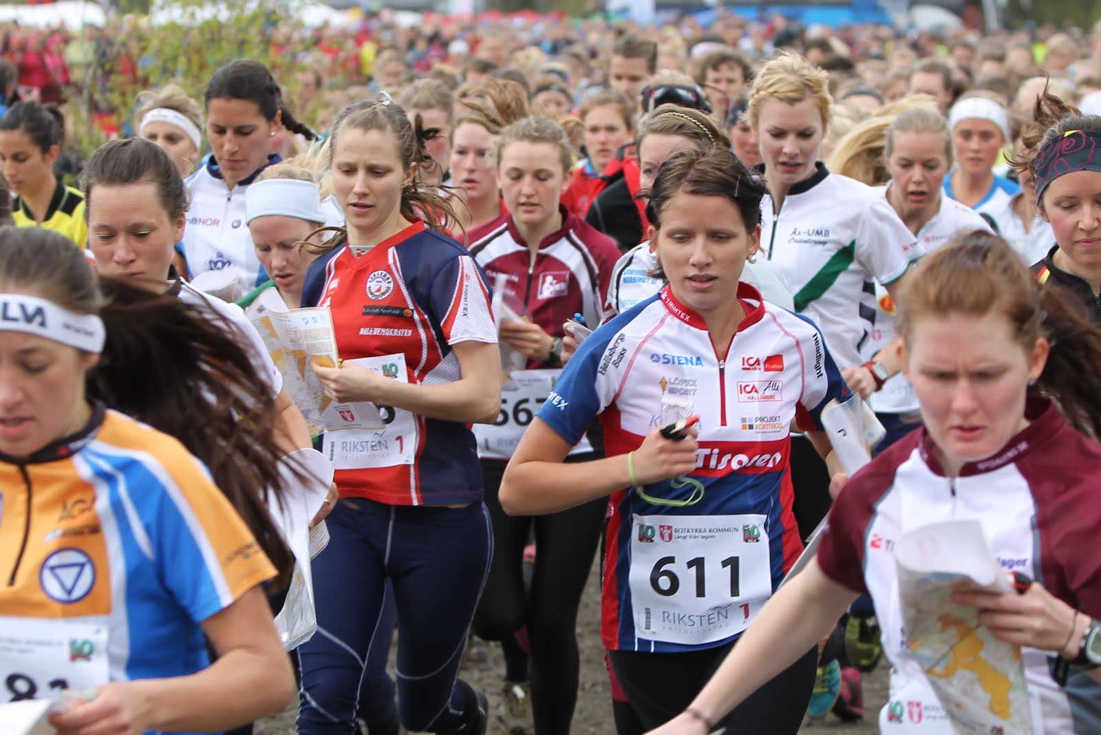 Tiomila 2011.